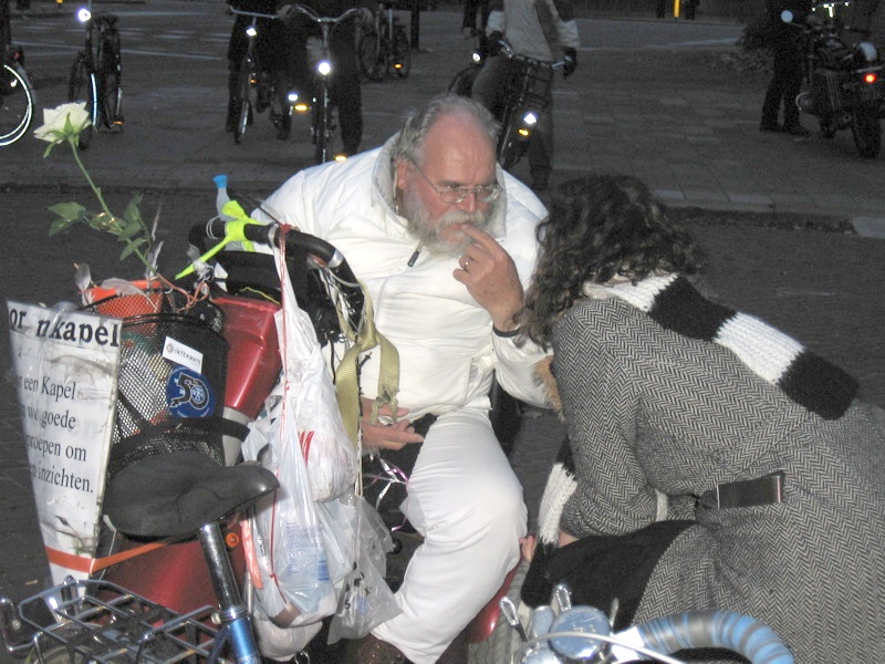 Arnol Kox in action